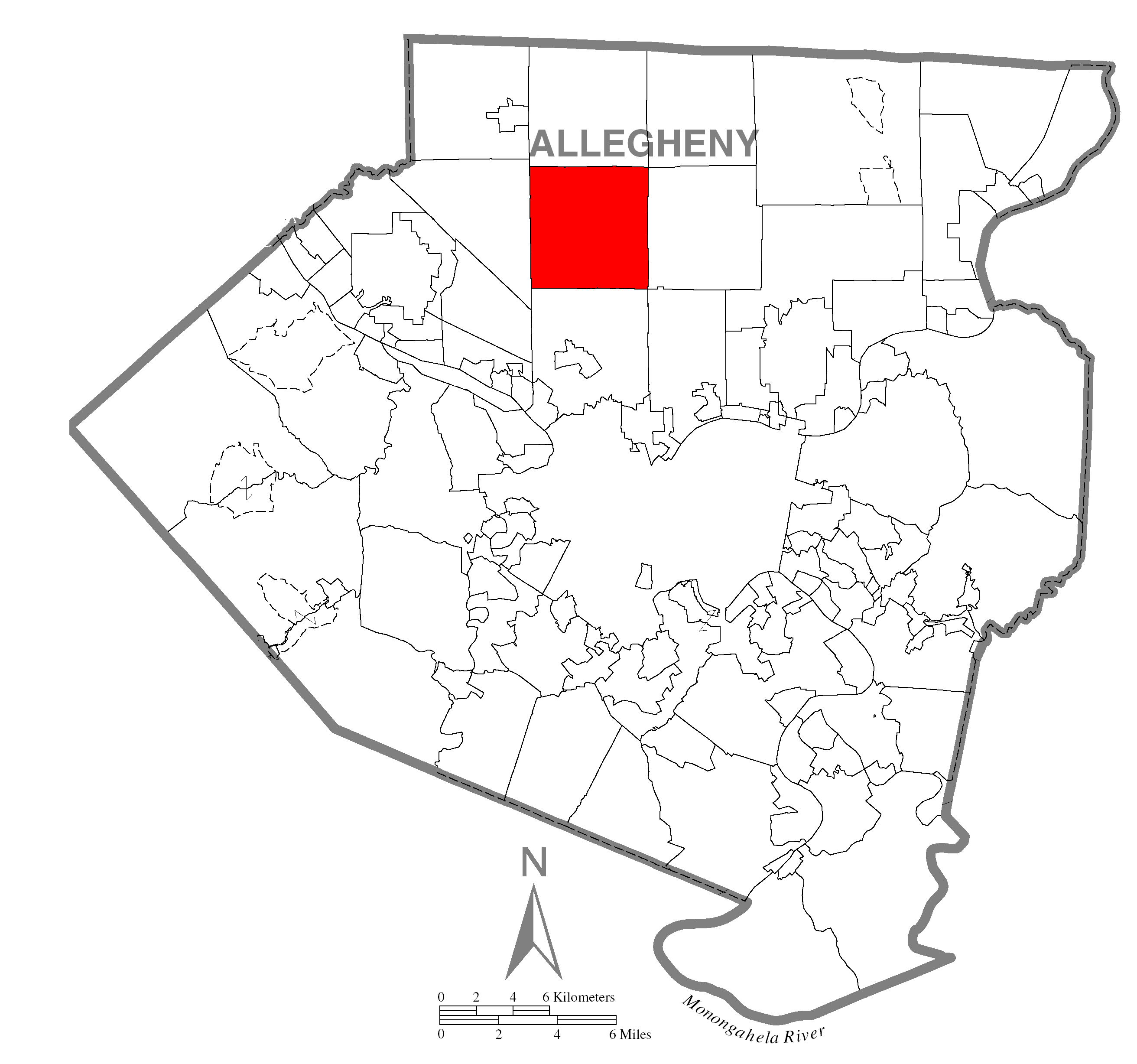 A map of Allegheny County showing McCandless Township, Pennsylvania (alternate) highlighted on the map.